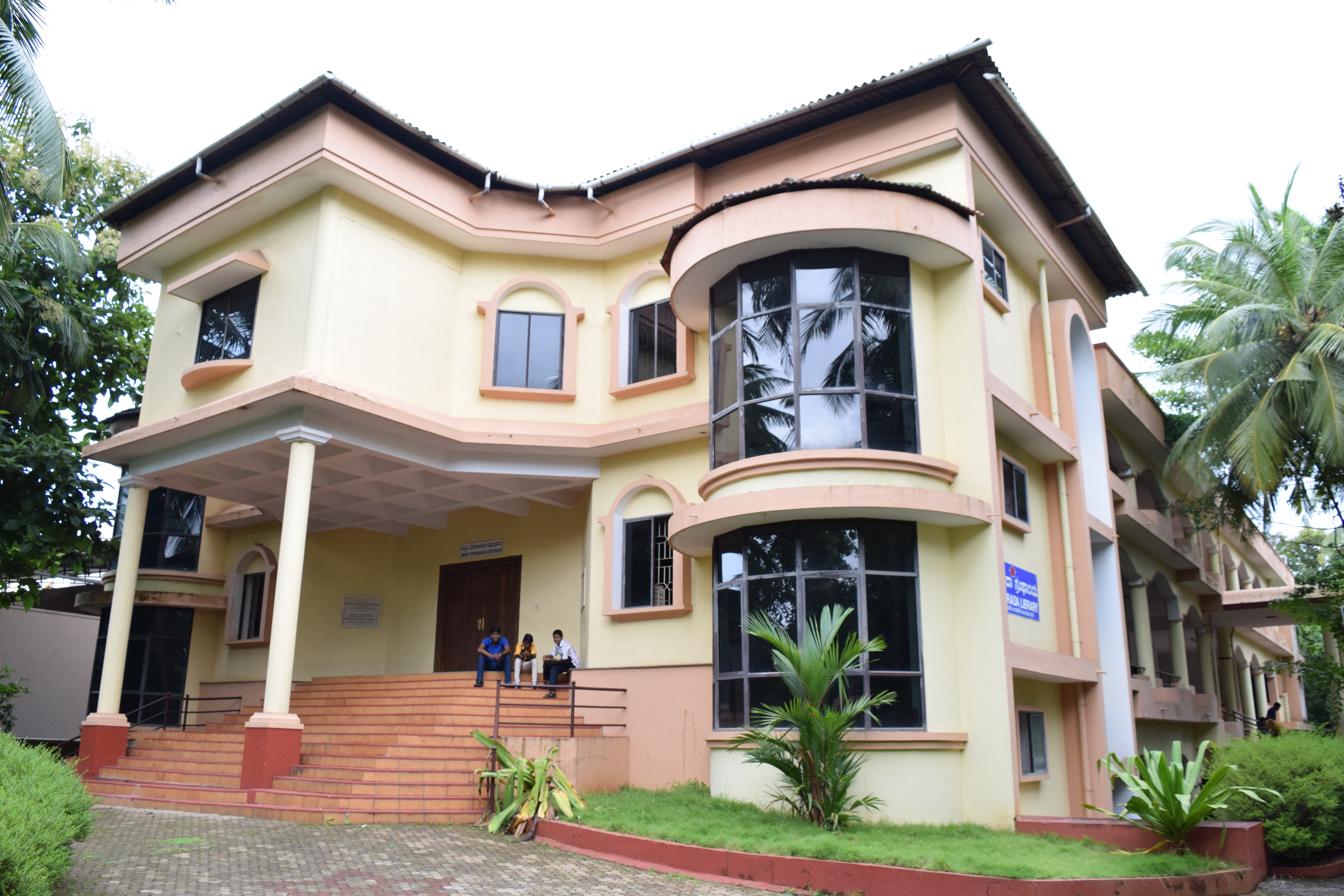 Ramakrishna ashram Mangalore auditorium entrance